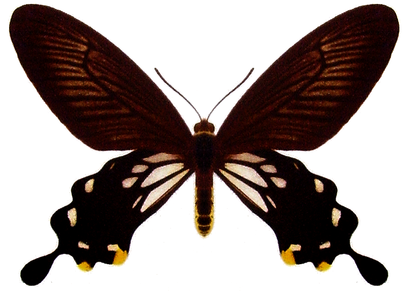 Common Clubtail, upperwing